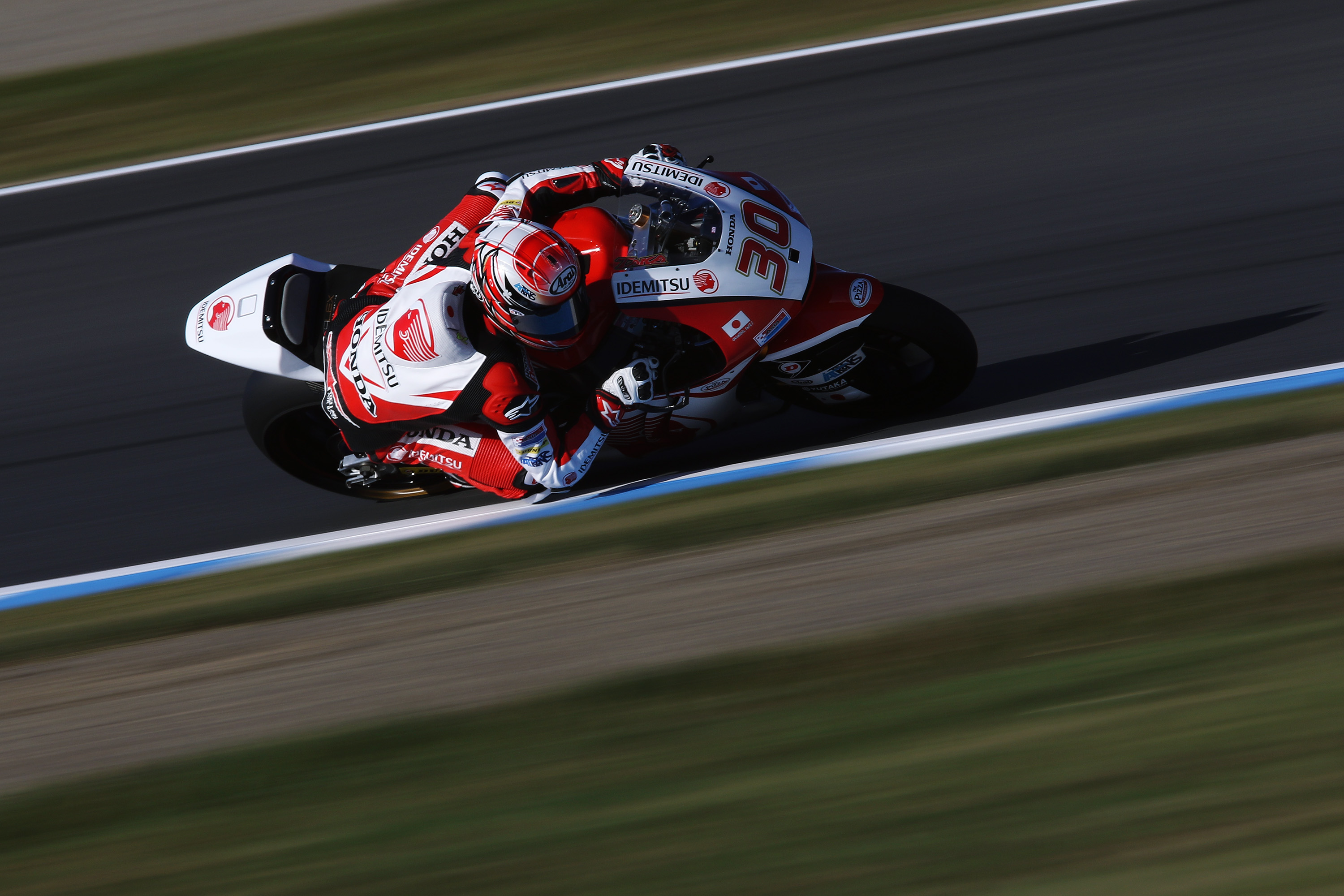 Takaaki Nakagami at 2016 Grand Prix of Japan